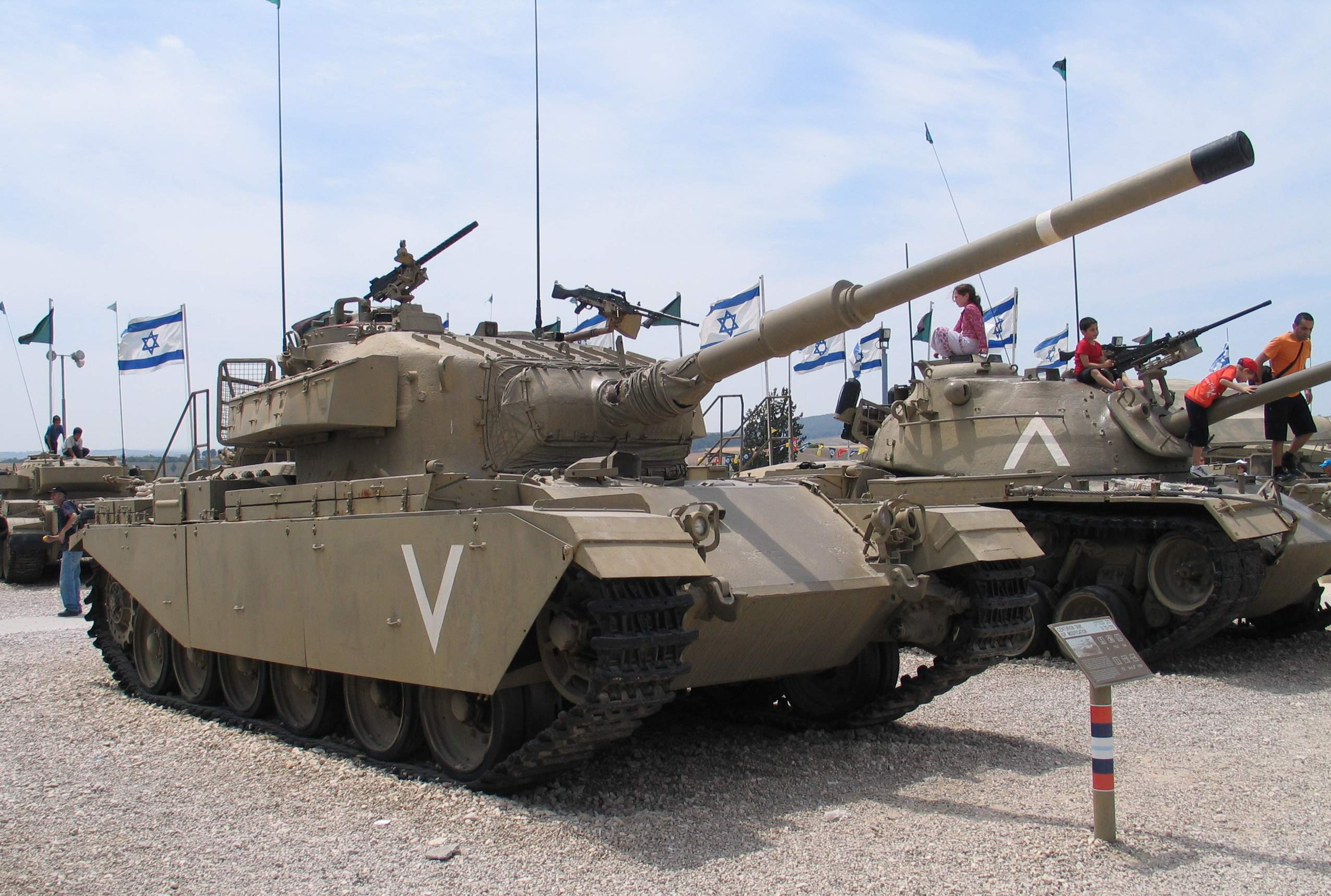 Centurion "Shot Kal Alef" in Yad la-Shiryon Museum, Israel, 2008.